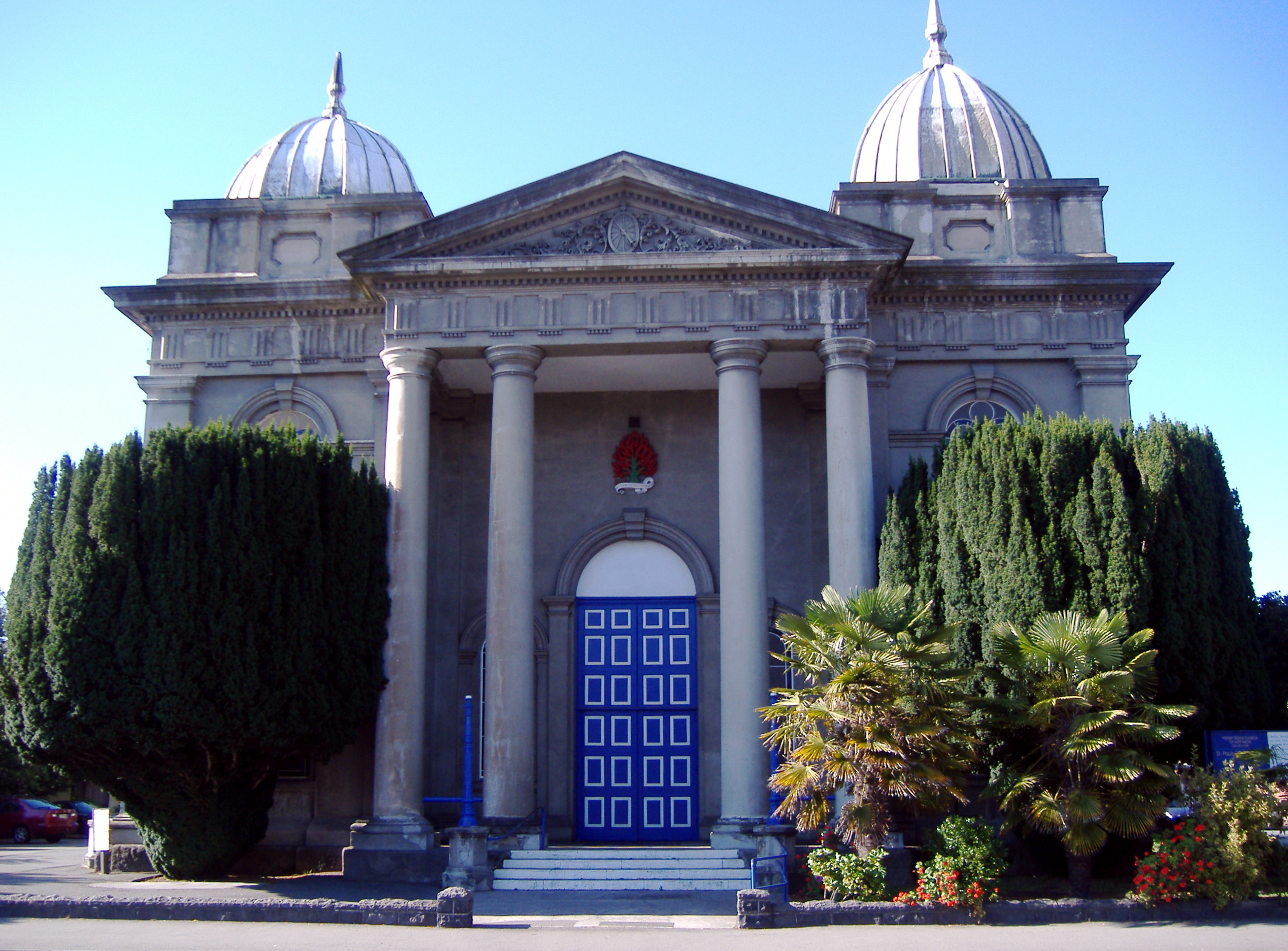 St. Paul's Trinity Pacific Presbyterian Church became a formal church in 1864. It was damaged by arson in 2009 and restoration had begun when the Sept 2010 earthquake hit, damaging it further. This lovely church has been completely destroyed in the Feb 22 quake that rocked Christchurch and levelled so many of the city's heritage buildings.